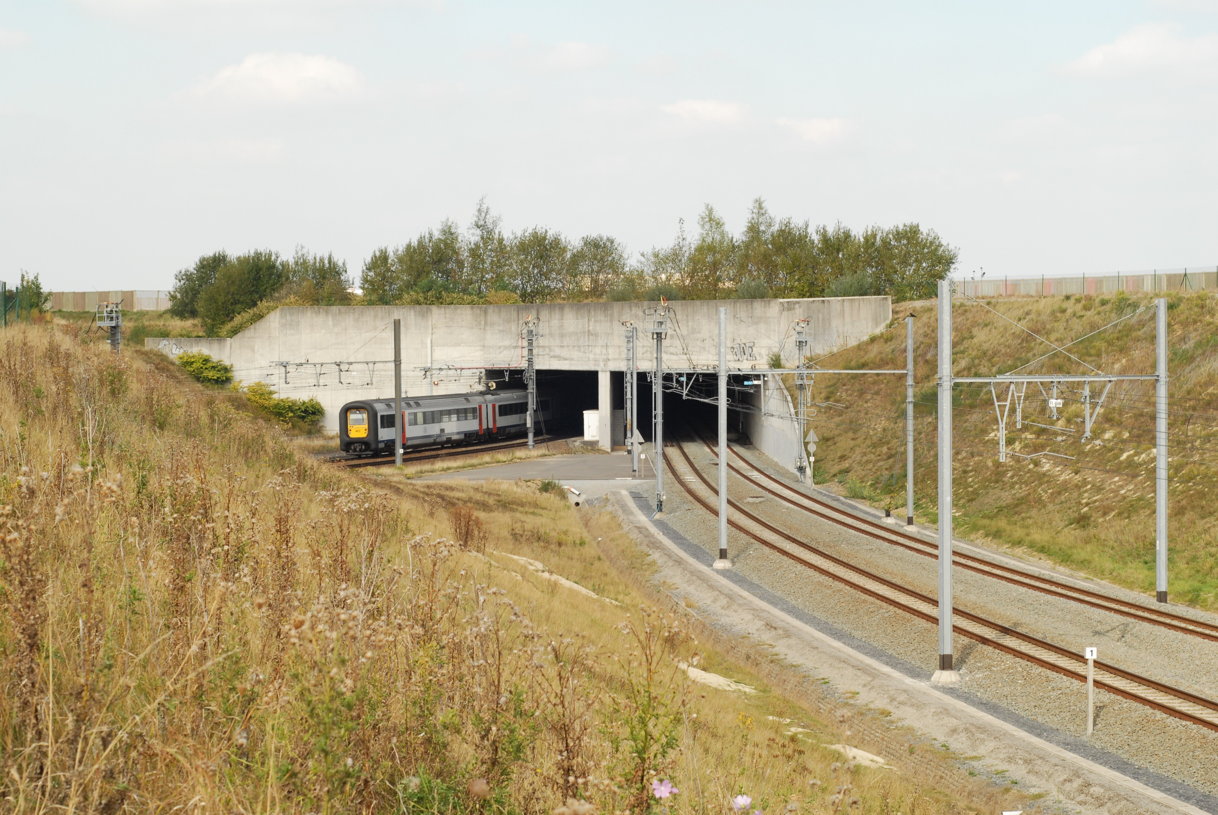 Entrance of the underground railway station at Brussels-Airport